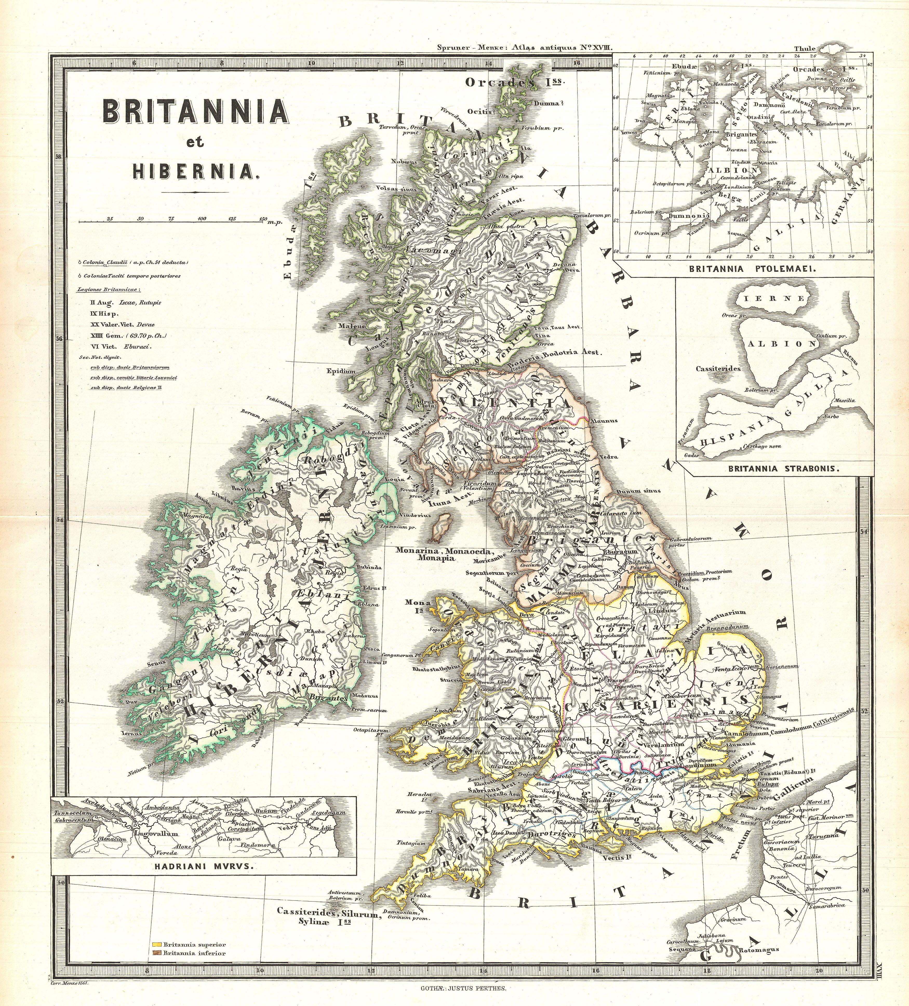 This is Karl von Spruner’s 1865 map of England, Scotland, and Ireland (Britannia et Hibernia) in antiquity. Shows names of ancient tribes and peoples and the areas they inhabited. In addition to the main map there are three insets detailing Hadrian’s Wall, Britannia according to the Alexandrian cartographer Ptolemy, and Britannia according to Strabo. Map includes a scale and a legend in the upper-left quadrant. Map notes important cities, rivers, mountain ranges and other minor topographical detail. Territories and countries outlined in color. The whole is rendered in finely engraved detail exhibiting throughout the fine craftsmanship of the Perthes firm.